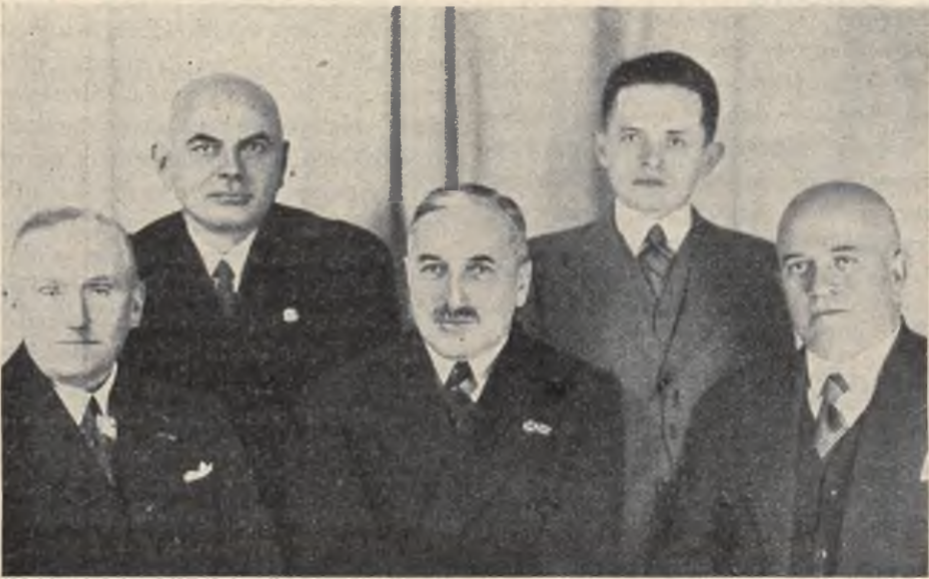 Members of the board of Związek Byłych Uczestników Wojskowej Straży Kolejowej